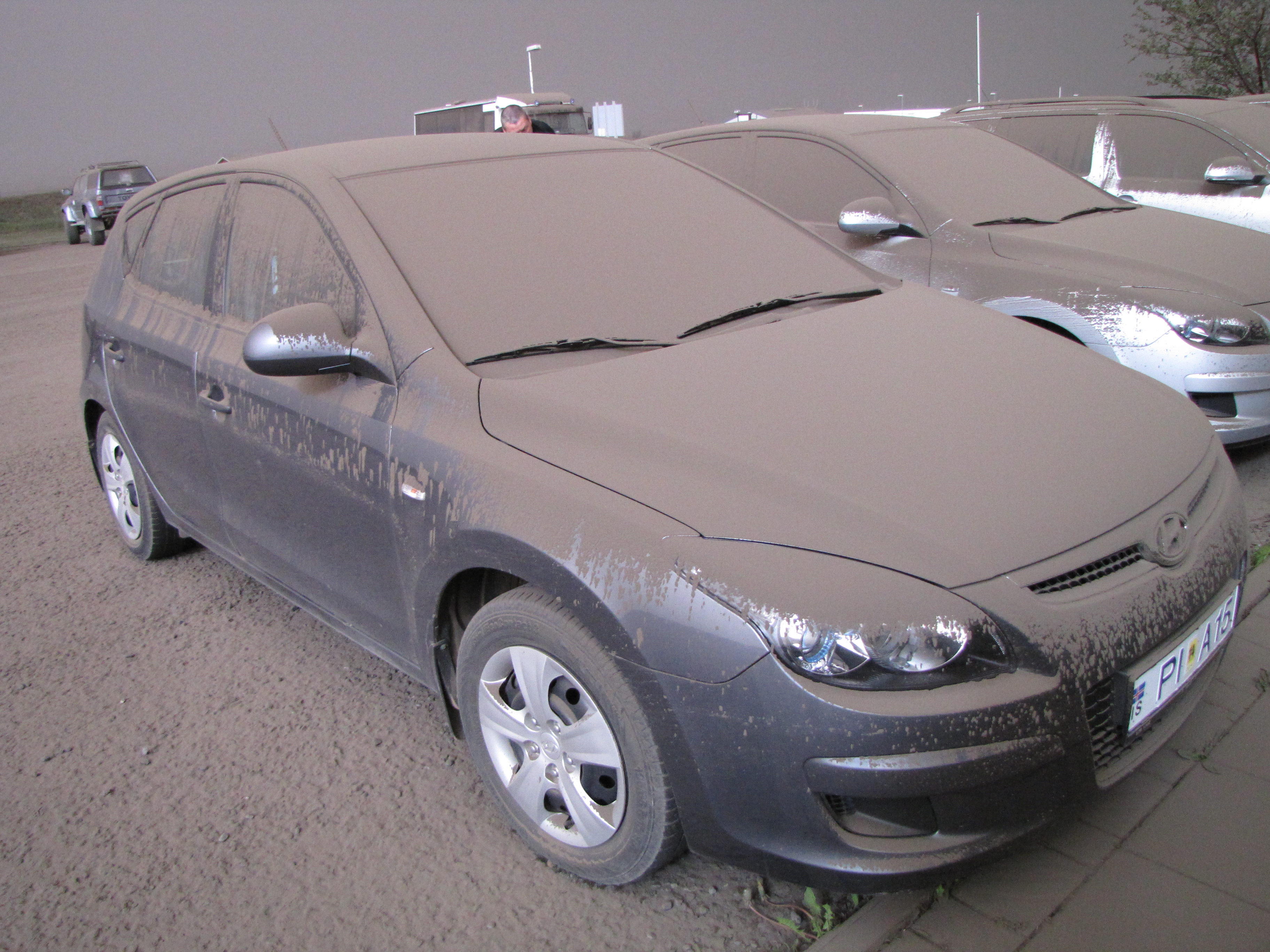 Ash-covered cars the morning after the Grímsvötn 2011 eruption, 22 May, 7 am, at Foss Hotel Skaftafell.